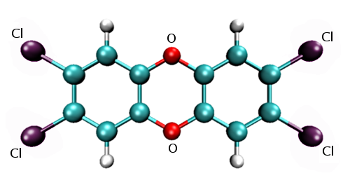 3D visualization of 2,3,7,8-tetrachlorodibenzo-p-dioxin (TCCD).